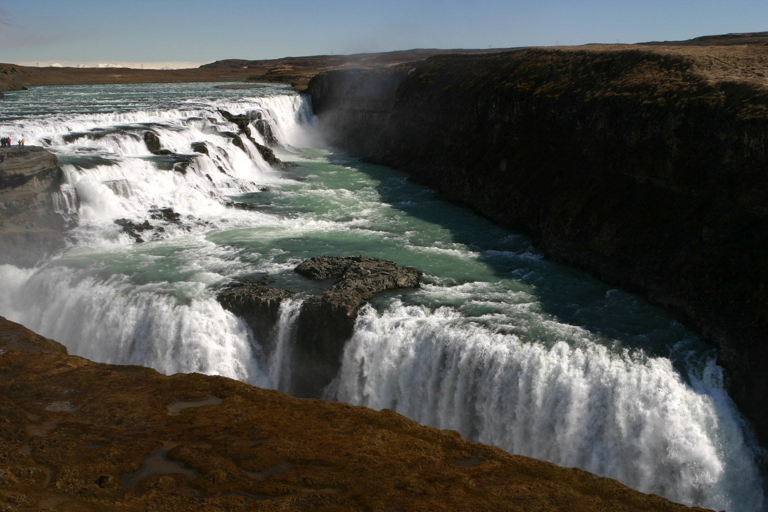 Gullfoss, Iceland, May 2006